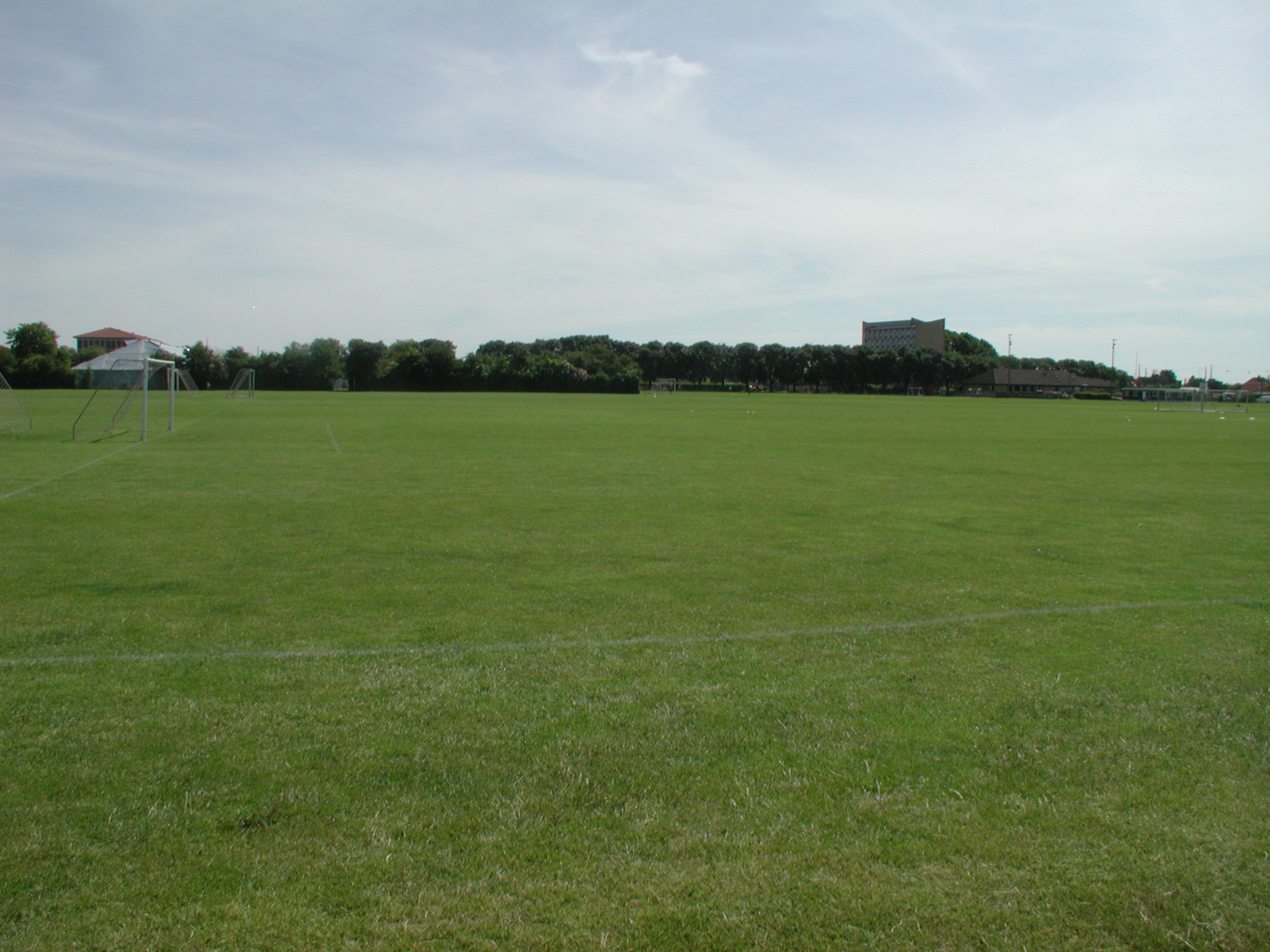 Sundby Idrætspark on Amager, Copenhagen. Seen from the football fields.